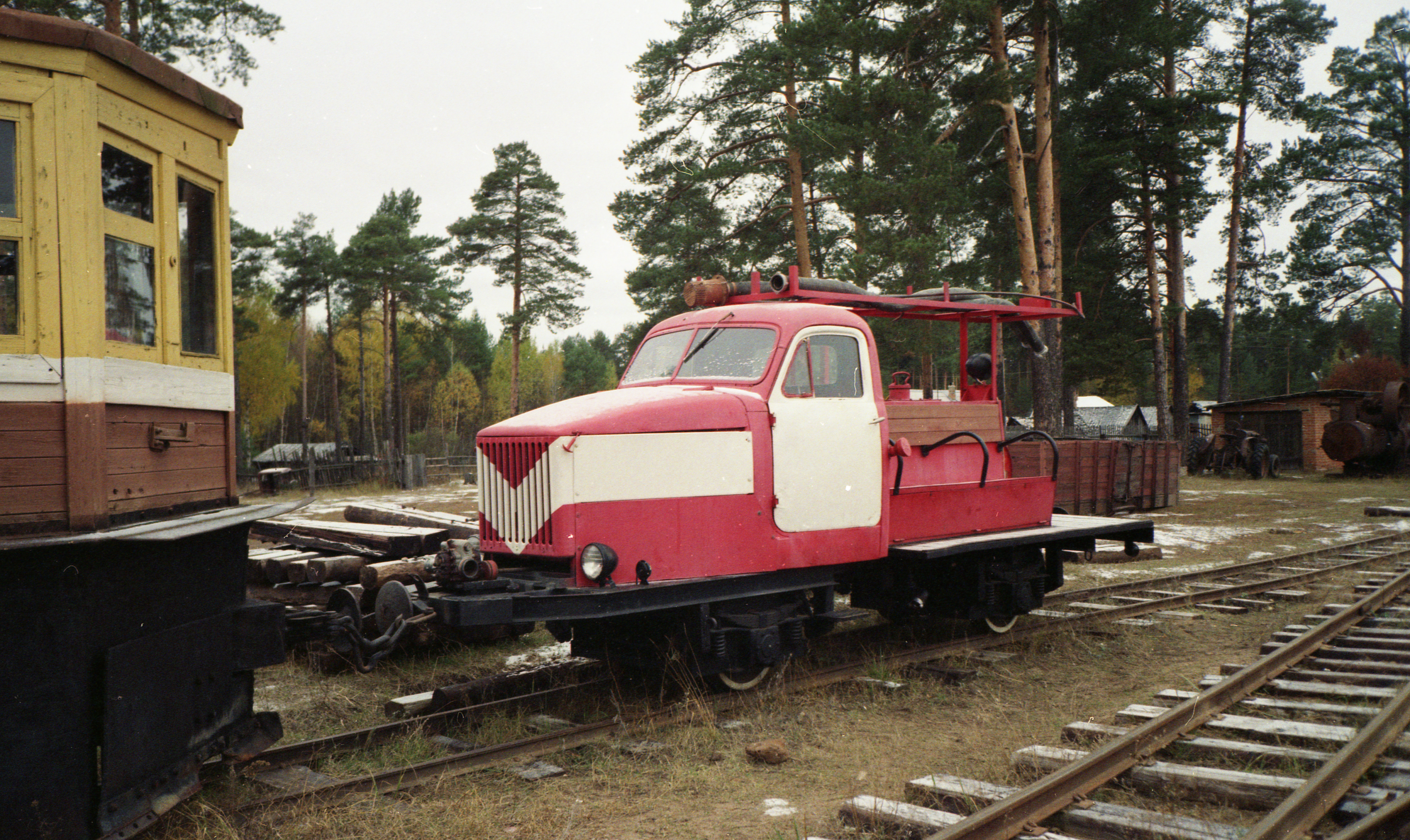 Pereslavl railway museum.